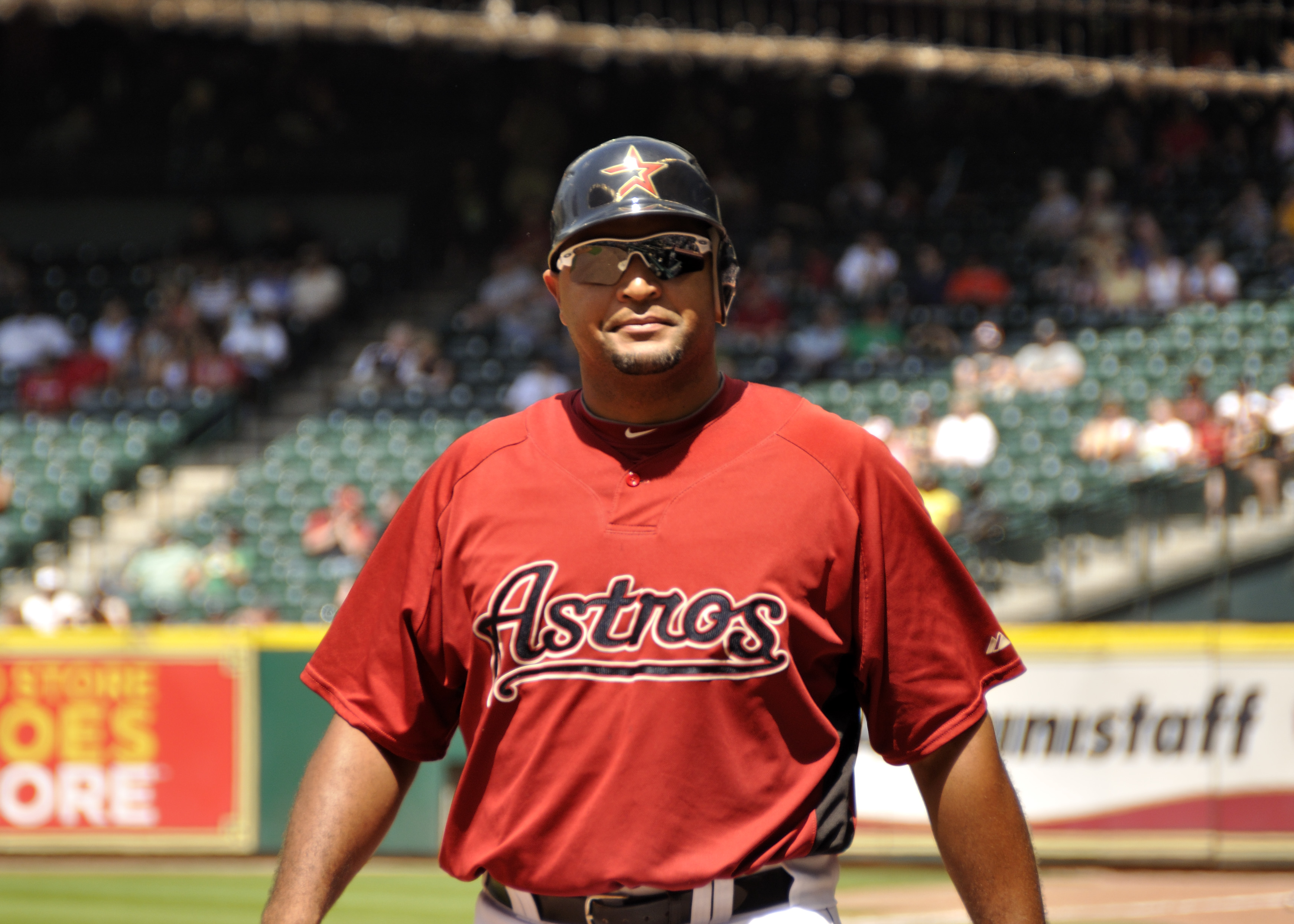 Carlos Lee